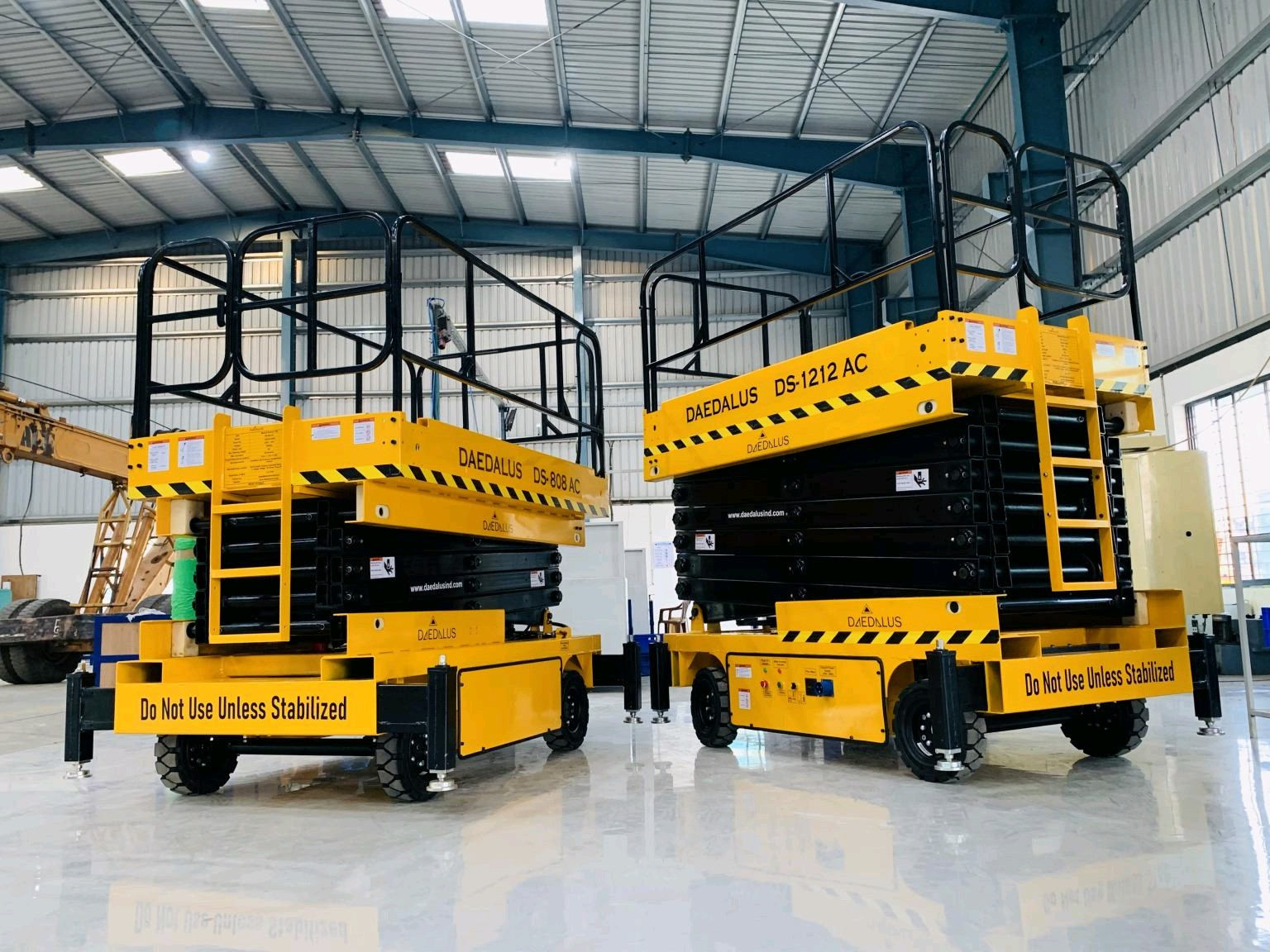 Electrical AWPS/MEWPS manufacturing company Daedalus Lifts And Access equipment Pvt Ltd